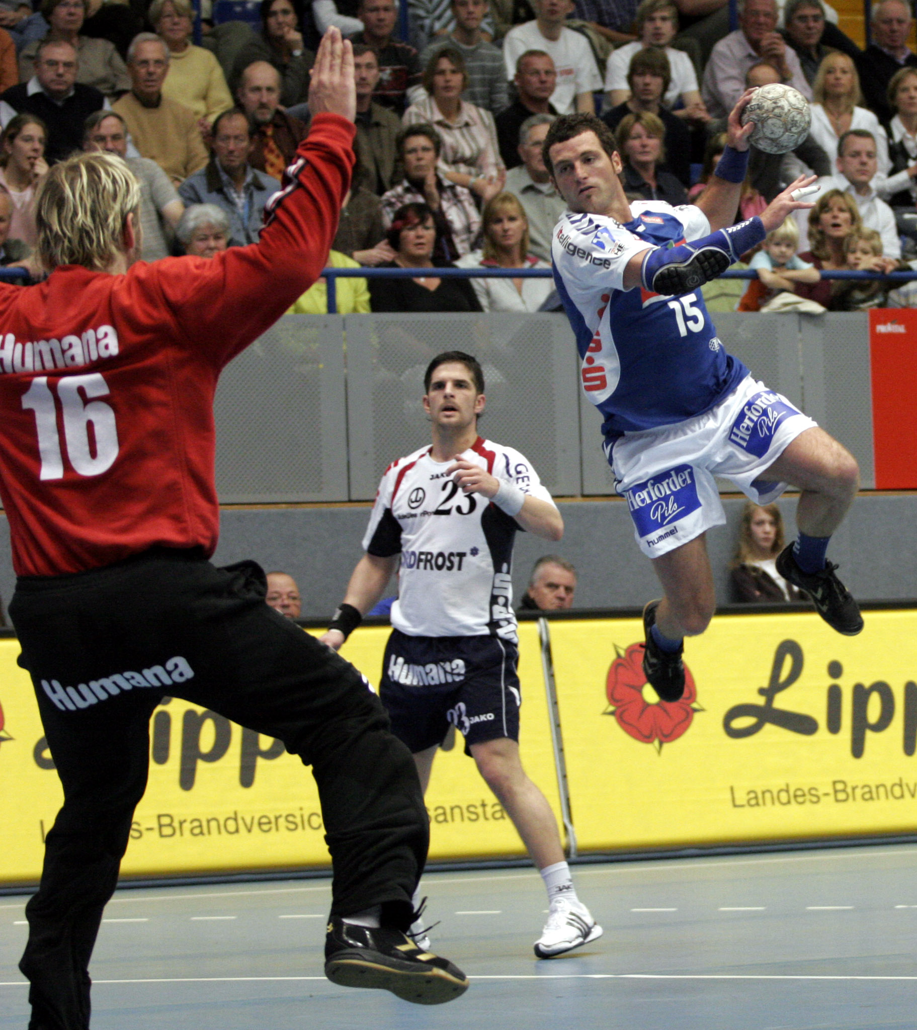 Florian Kehrmann, handball player of TBV Lemgo (Germany), in the Lipperlandhalle during the match TBV Lemgo vers. Wilhelmshavener HV on October 13th, 2007